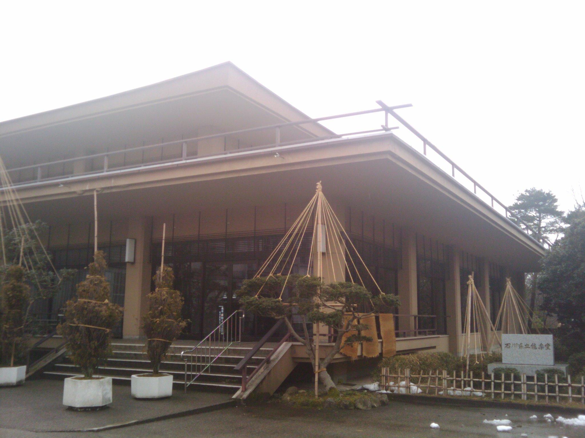 Ishikawa Prefectural Noh Theater